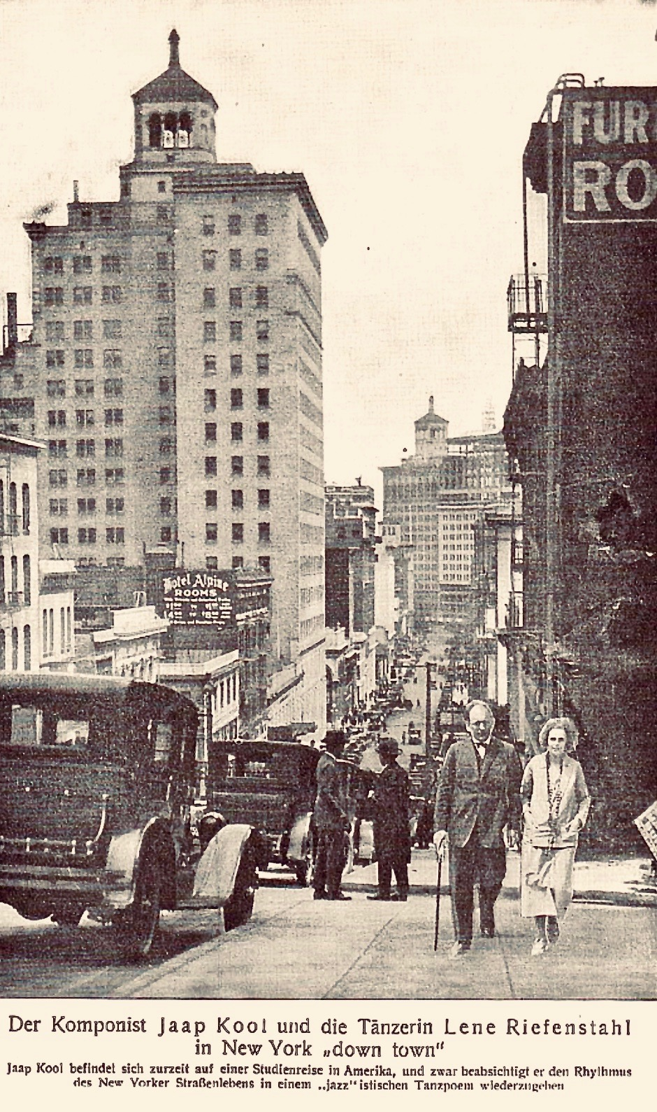 Jaap Kool (1890–1959) and Leni Riefenstahl (1902–2003) in a German newspaper article, published in 1924, without bibliographical source. The picture is an easily recognizable fake. As the newspaper actually had no correspondent in NYC the journalists just clipped both people from another picture which was probably made in Berlin and placed it on a New York street scene.